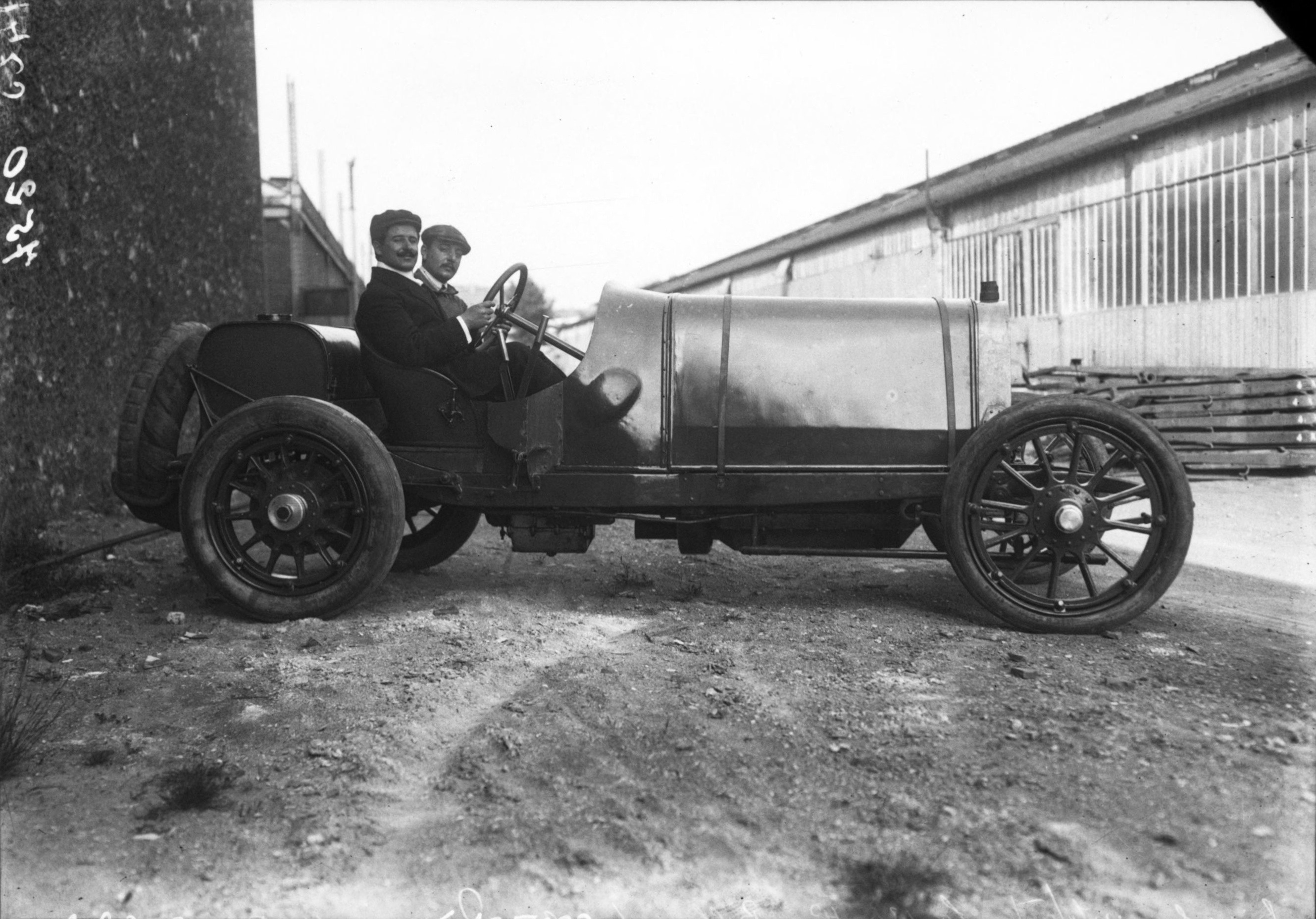 Victor Rigal in his Clément-Bayard at the 1908 French Grand Prix at Dieppe.